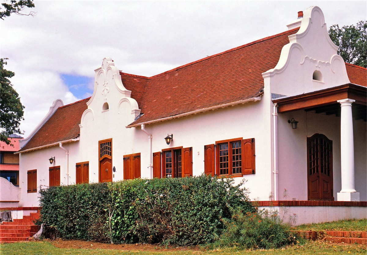 This media shows a South African Protected Site with SAHRA file reference 9/2/111/0110.